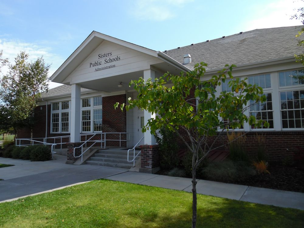 North (front) façade of the historic Sisters High School; now the Sisters School District Administration Building, located in Sisters, Oregon